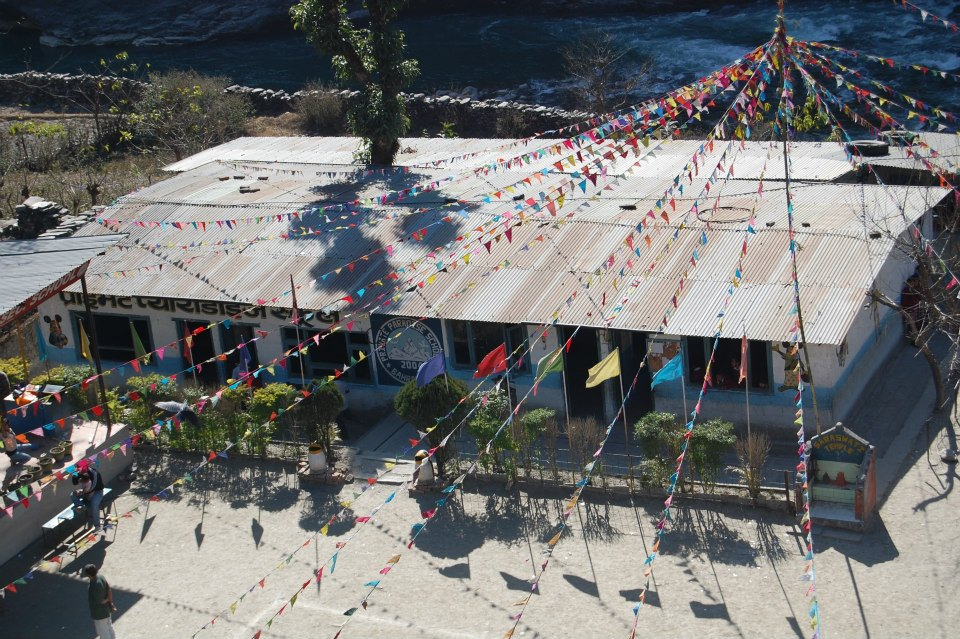 Private Paradise Secondary School